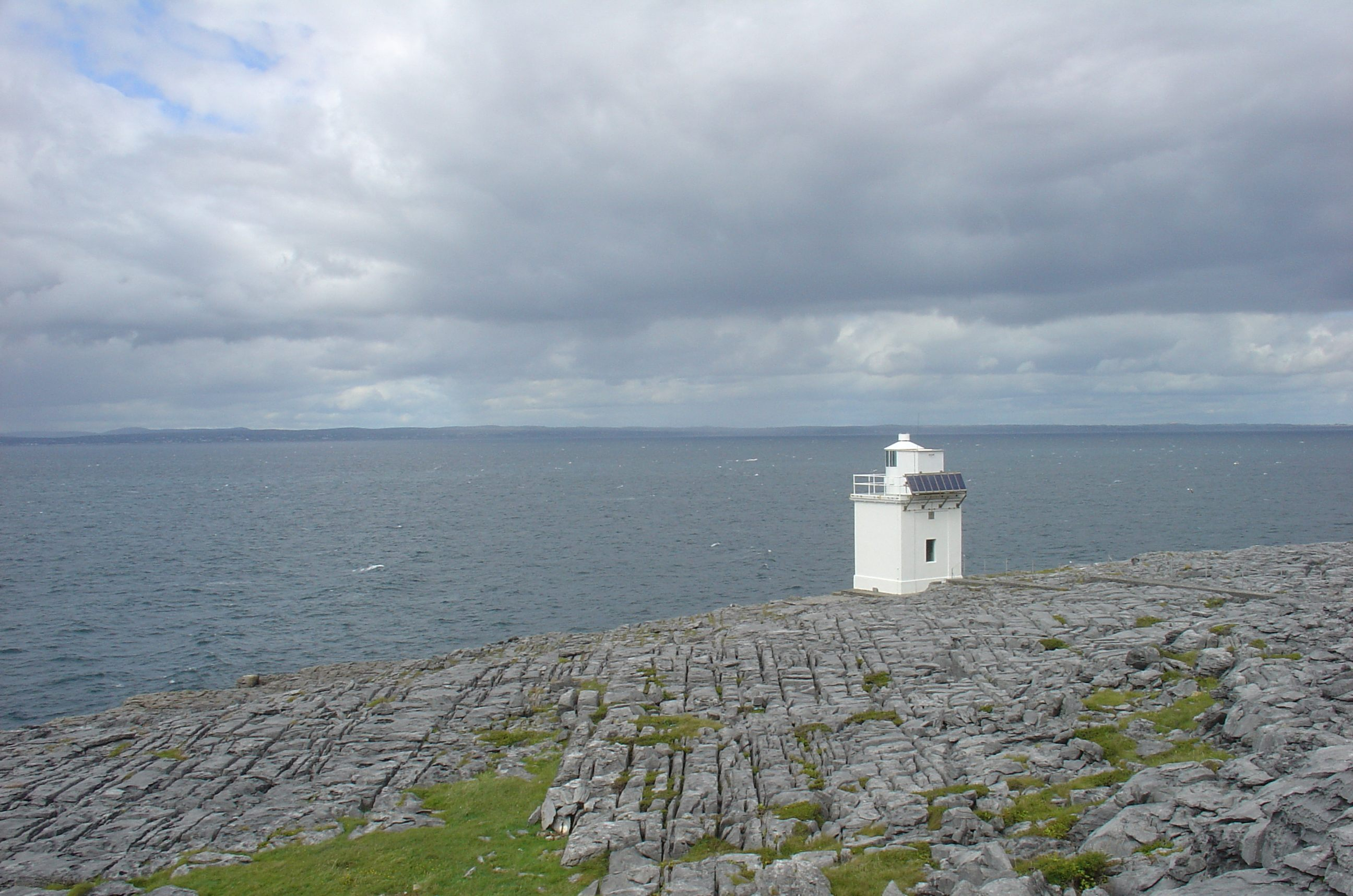 Burren: Blackhead lighthouse, County Clare